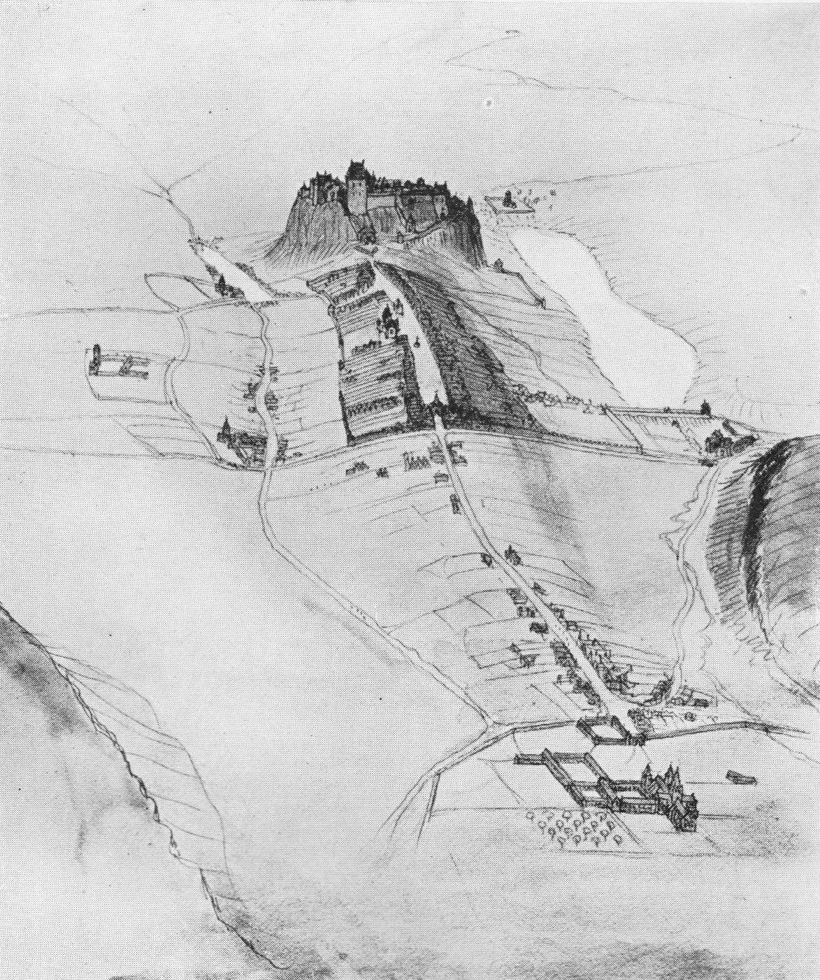 An artist's reconstruction drawing of the burgh in the 15th century. This image is annotated on its Description Page at Commons.